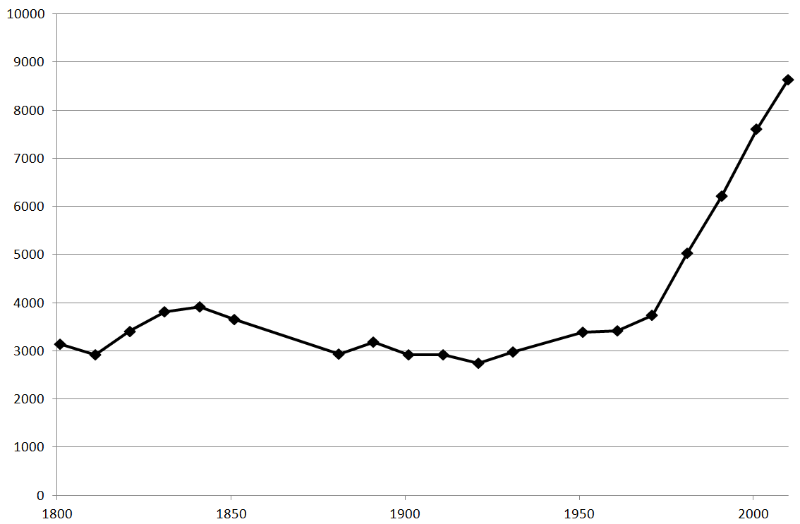 Graph showing the population of Cullompton from 1801 to 2010. Based on data from: for 1801-1961 (VBT) Census data for 2001: Census_2001 (2010) (NHS) Data for 1971, 1981 from Devon in Figures, Devon County Council, 1985, Published by Devon Books (DIF) Data for 1991 from census data, taken from small area statistics. Print outs produced by Devon Research and Intelligence Services, 1993 (Census_1991)